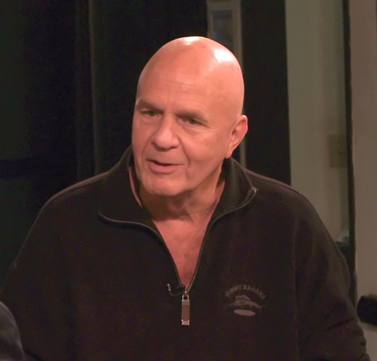 This is a photograph I personally took when Wayne Dyer came by my television station (KUSI-TV in San Diego) in March 2009. This is NOT a screen shot. Please acknowledge "Phil Konstantin" as the creator of this photograph.